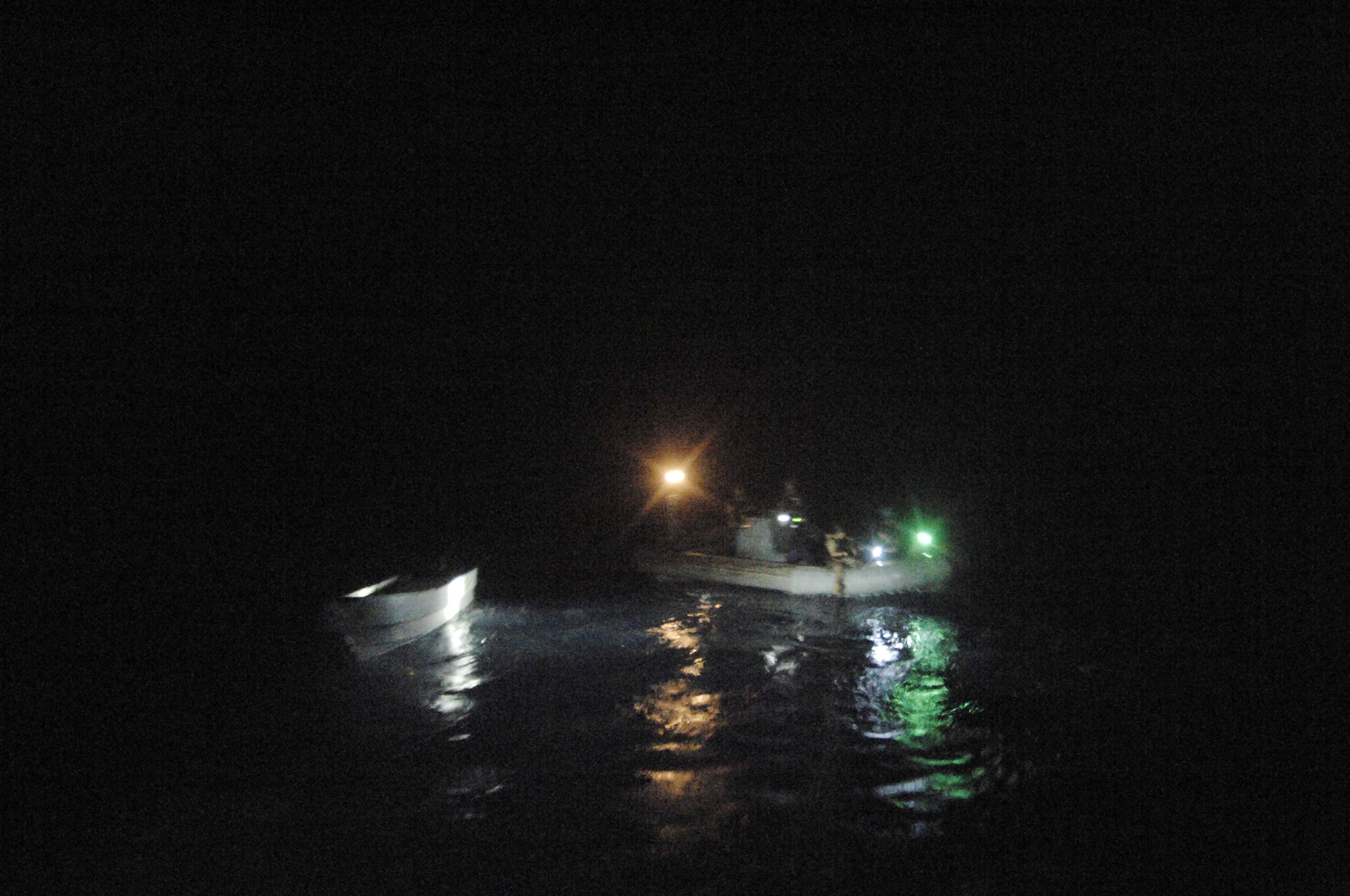 ARABIAN SEA (May 5, 2011) A visit, board, search and seizure team assigned to the guided-missile cruiser USS Bunker Hill (CG 52) tows a skiff after boarding and seizing it from a suspected pirate vessel. Bunker Hill responded to a distress call from the Panamanian merchant vessel Full City and brought the vessel to a stop. Bunker Hill and Carrier Strike Group (CSG) 1 are deployed supporting maritime security operations and theater security cooperation efforts in the U.S. 5th Fleet area of responsibility. (U.S. Navy photo by Mass Communication Specialist 3rd Class Aaron Shelley/Released)